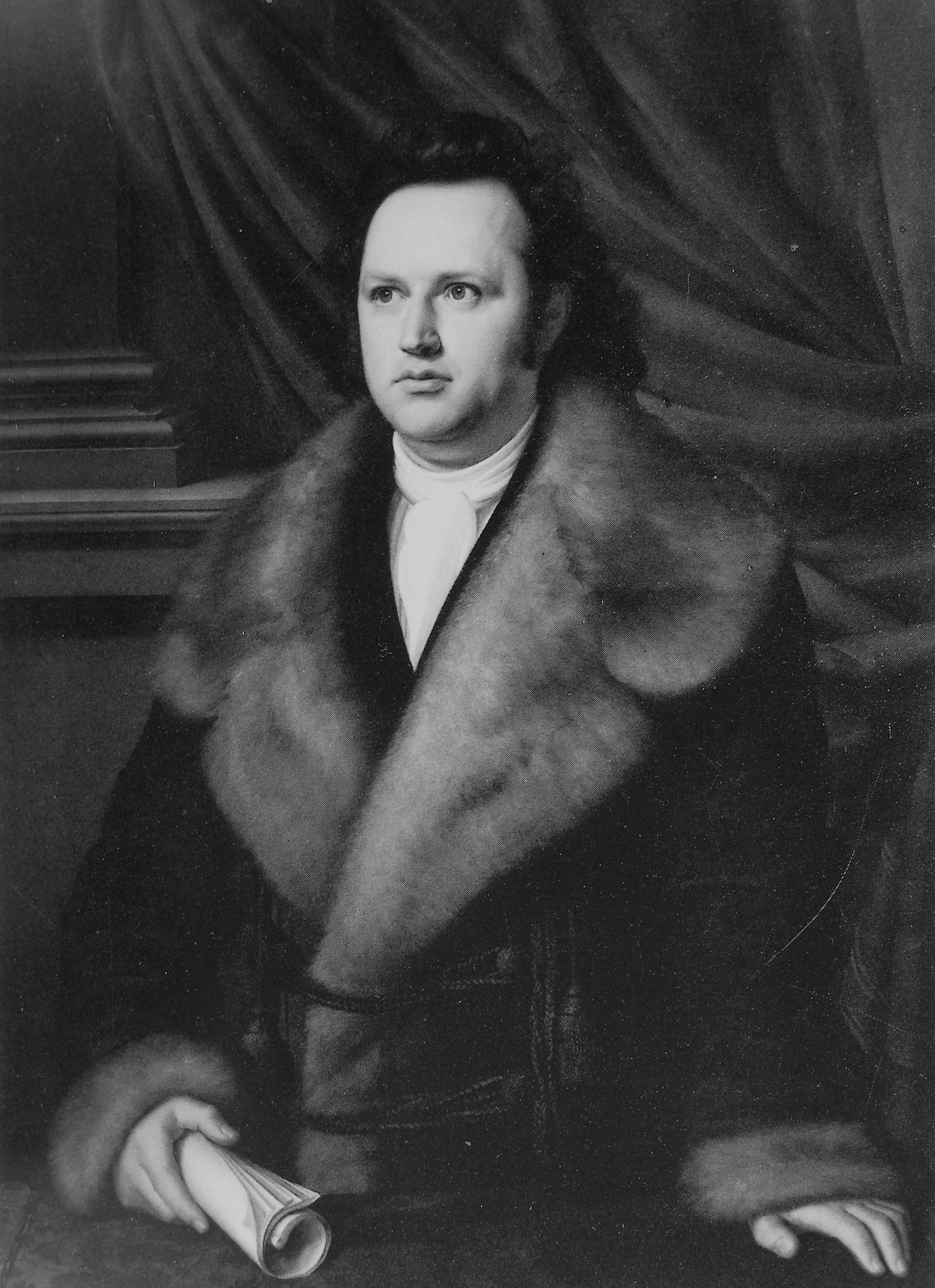 Portrait of the German pedagogue Ludwig Cauer, founder of the Cauersche Anstalt, Berlin.